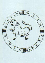 Ferdinand II of León